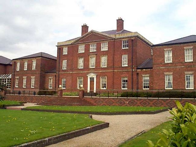 Josiah Wedgwood's House, Etruria. Now part of the Moat House Hotel.